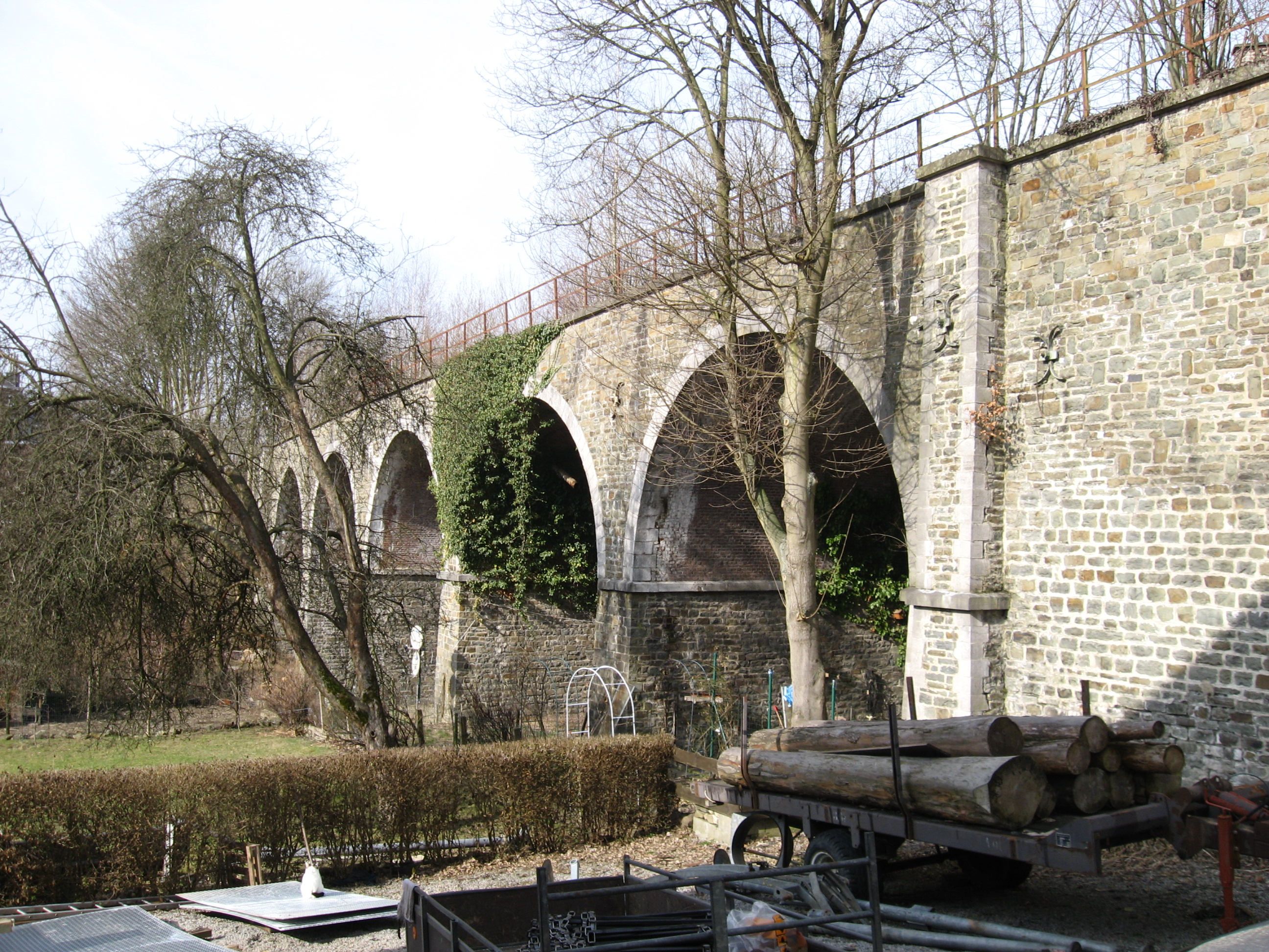 Railway viaduct in Spa off defunct line 44 climbing out off Spa.